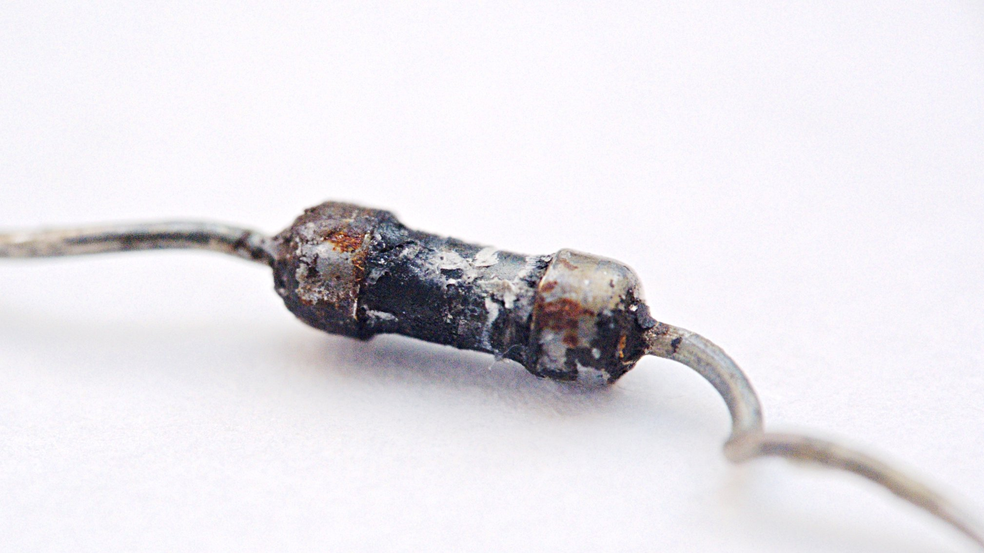 A macro shot of a burnt resistor from a high current using a Nikon D50 with NIKKOR 18-55mm f:3.5-5.6G (kit lens) and a reversed Nikkor 50mm 1:1.8D